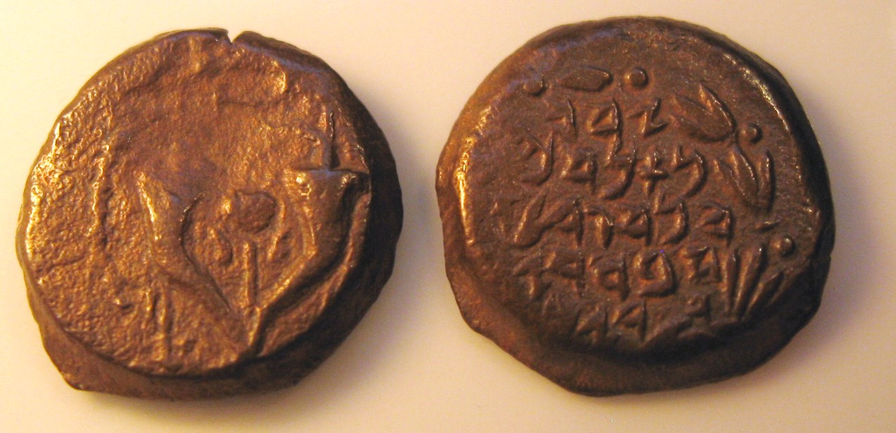 coin of Alexaner Jannaeus. Itamar Atzmon's collection